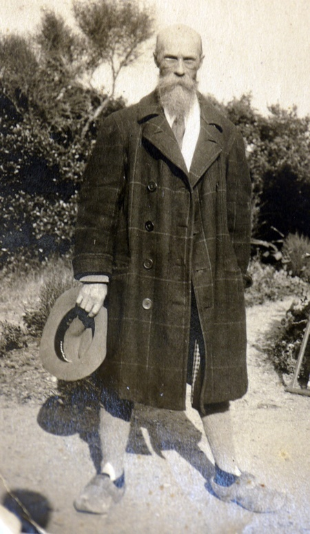 Эдгар Максенс